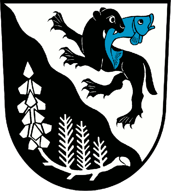 Coat of arms of Schwarzheide